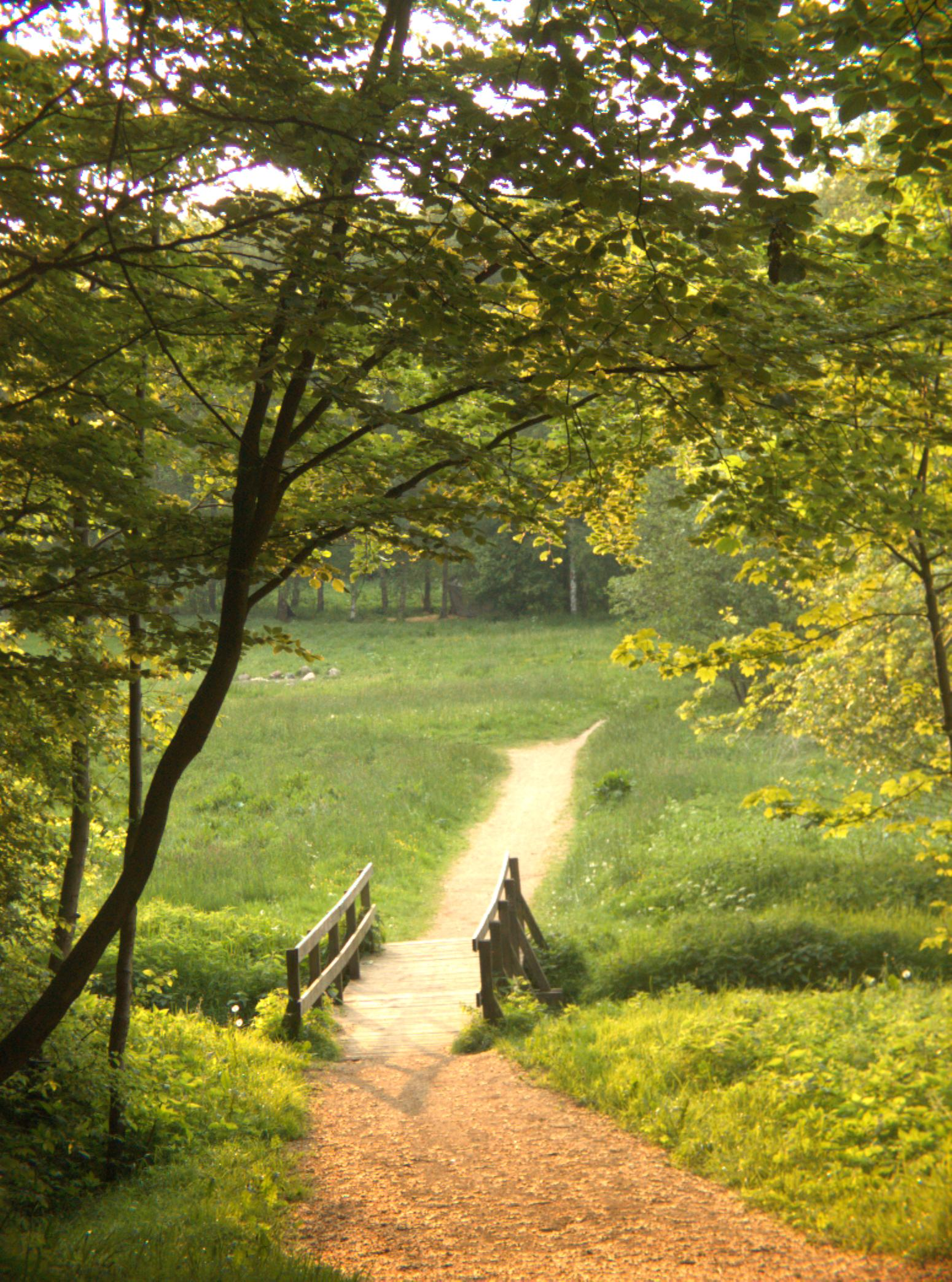 Åløkkeskov / Åløkke Wood in Odense, Denmark